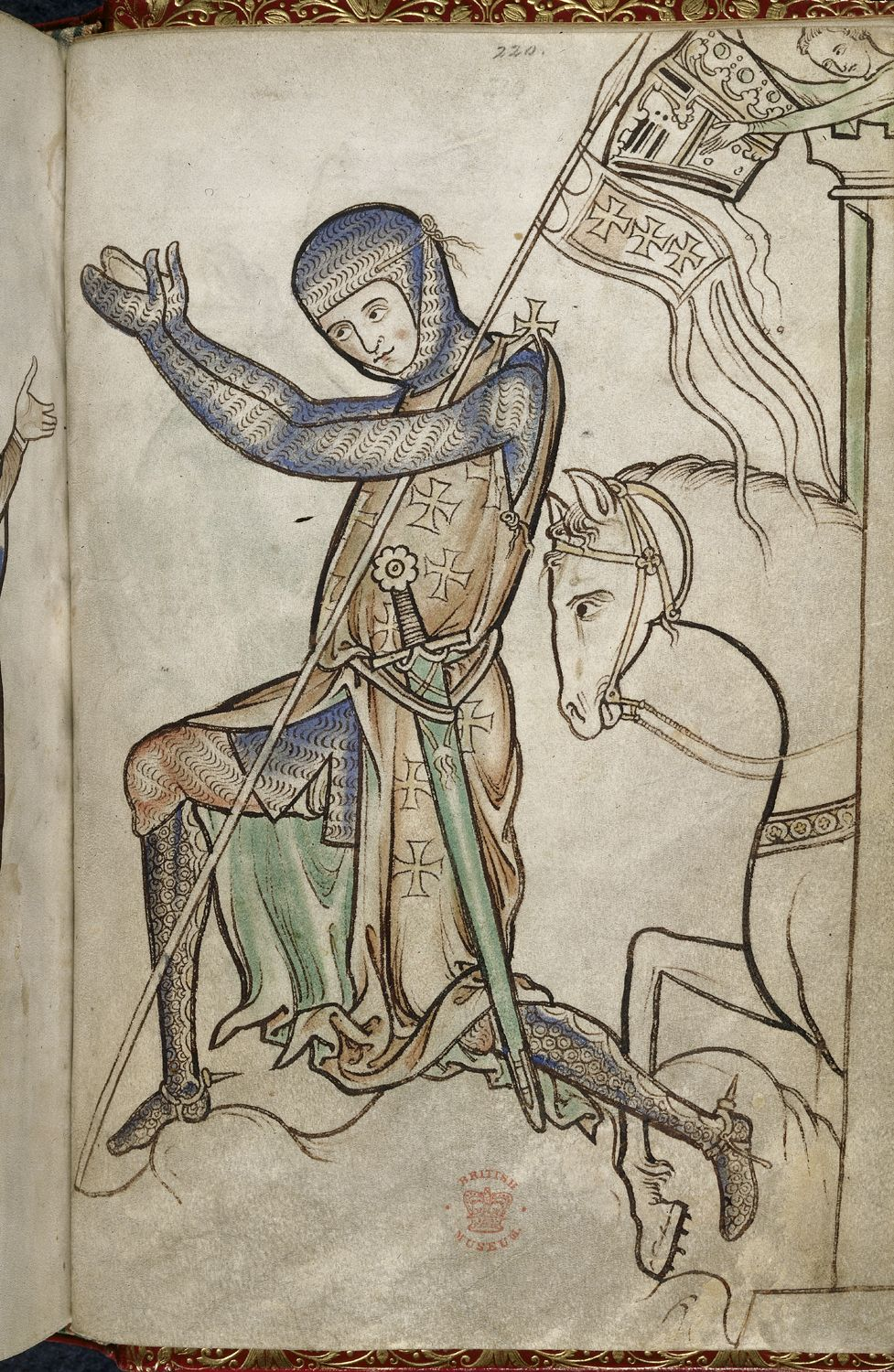 A kneeling knight with his horse before setting off on the crusades. His servant leaning over the turret with his masters helmet.From the Westminster Psalter, BL Royal MS 2 A xxii f. 220